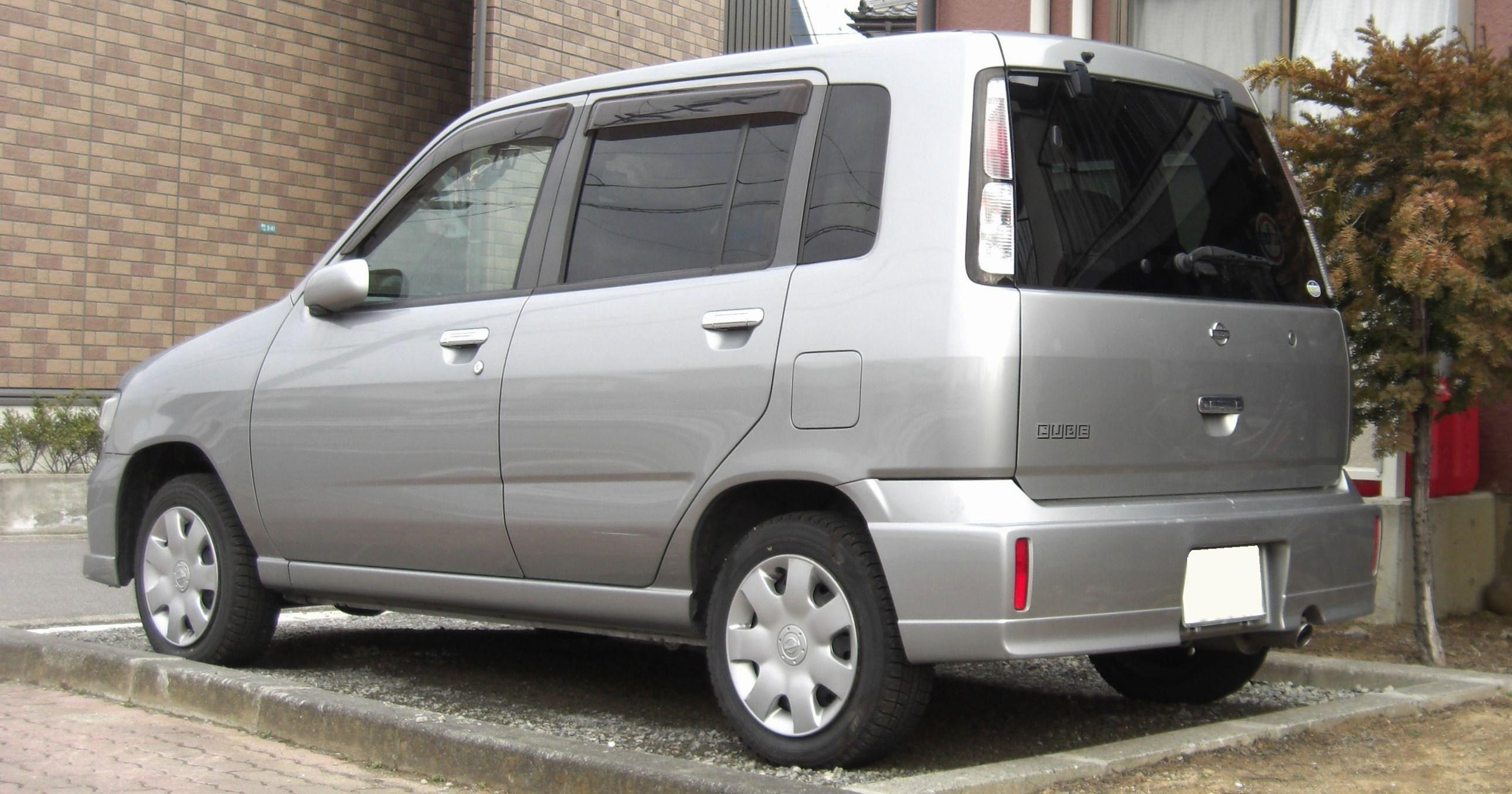 NISSAN CUBE